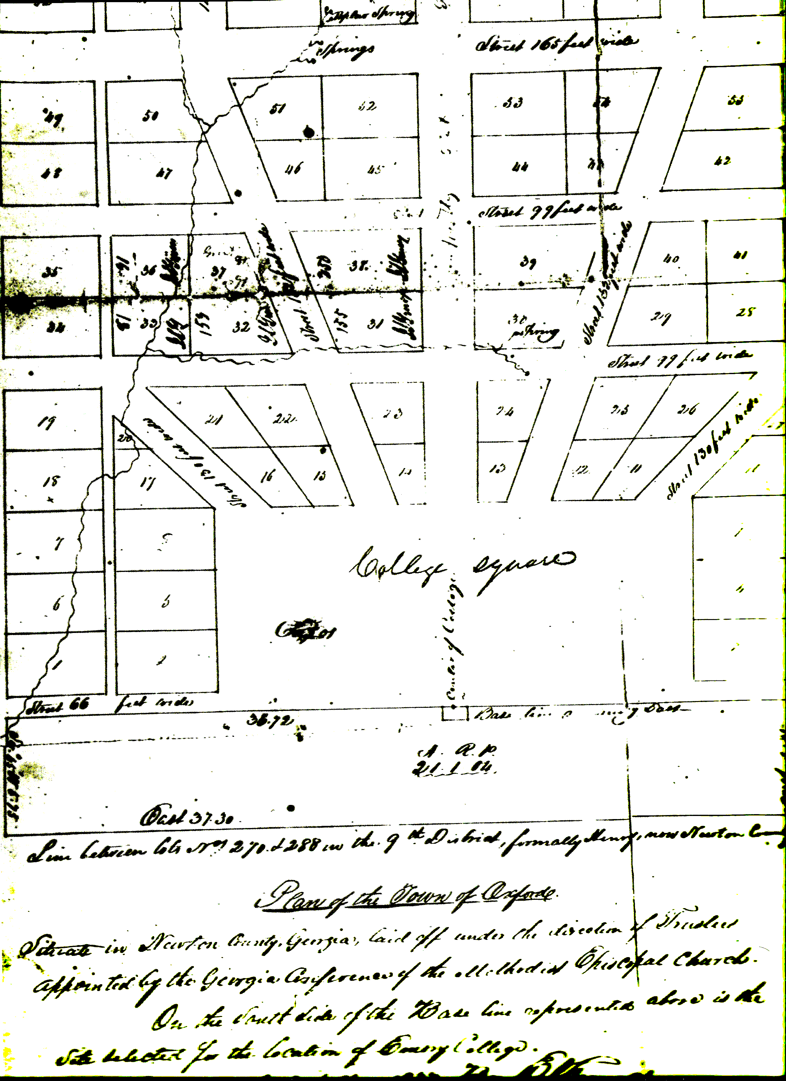 A map of the city plan drawn by Edward Lloyd Thomas of the town of Oxford and of Emory College.